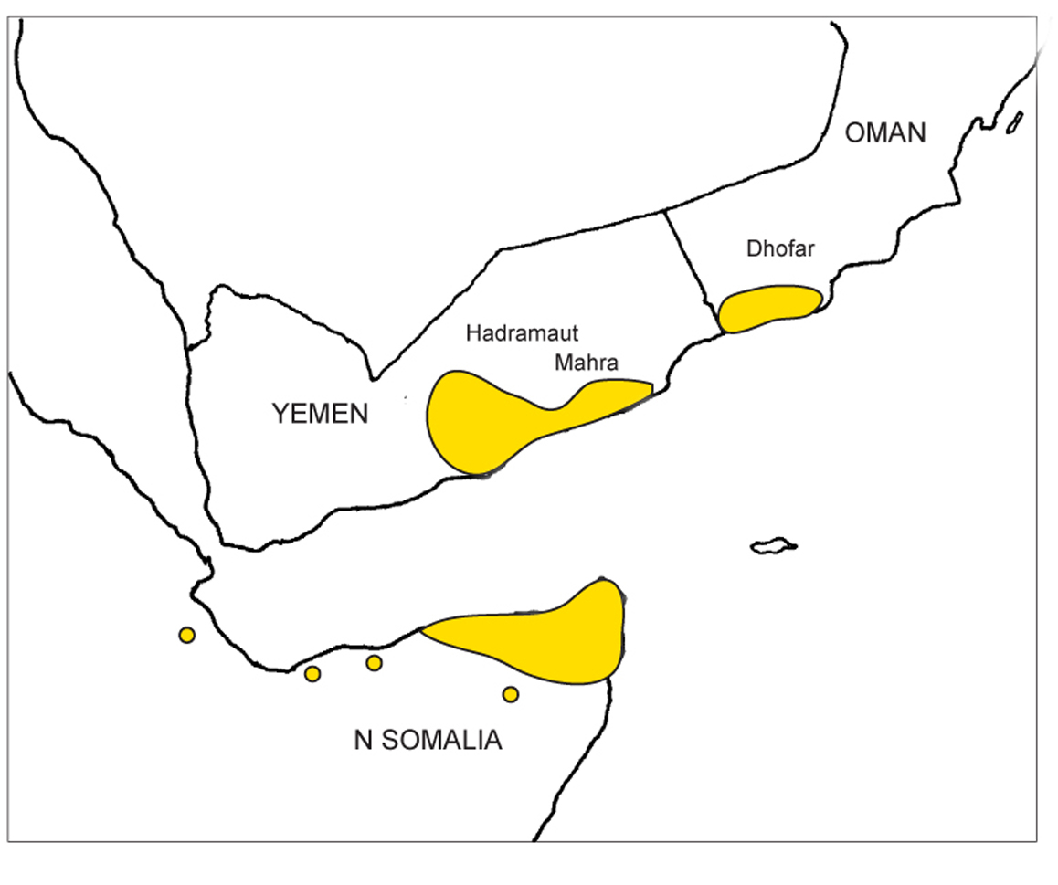 Distribution of Boswellia sacra in Oman, Yemen and N Somalia